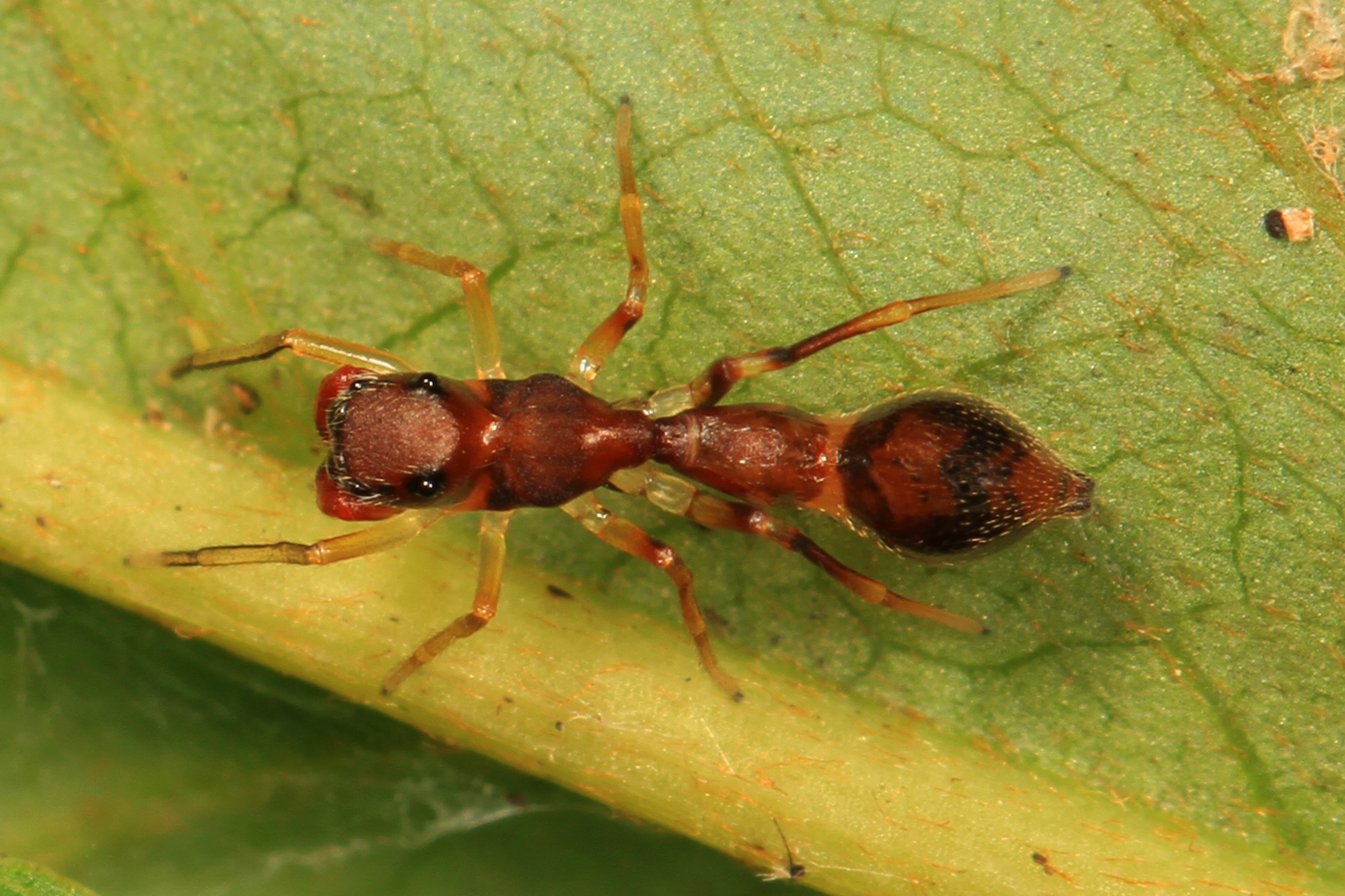 Ant-mimic Jumping Spider - Synemosyna formica, Carderock Park, Carderock, Maryland. 10/1/2014 - Montgomery County